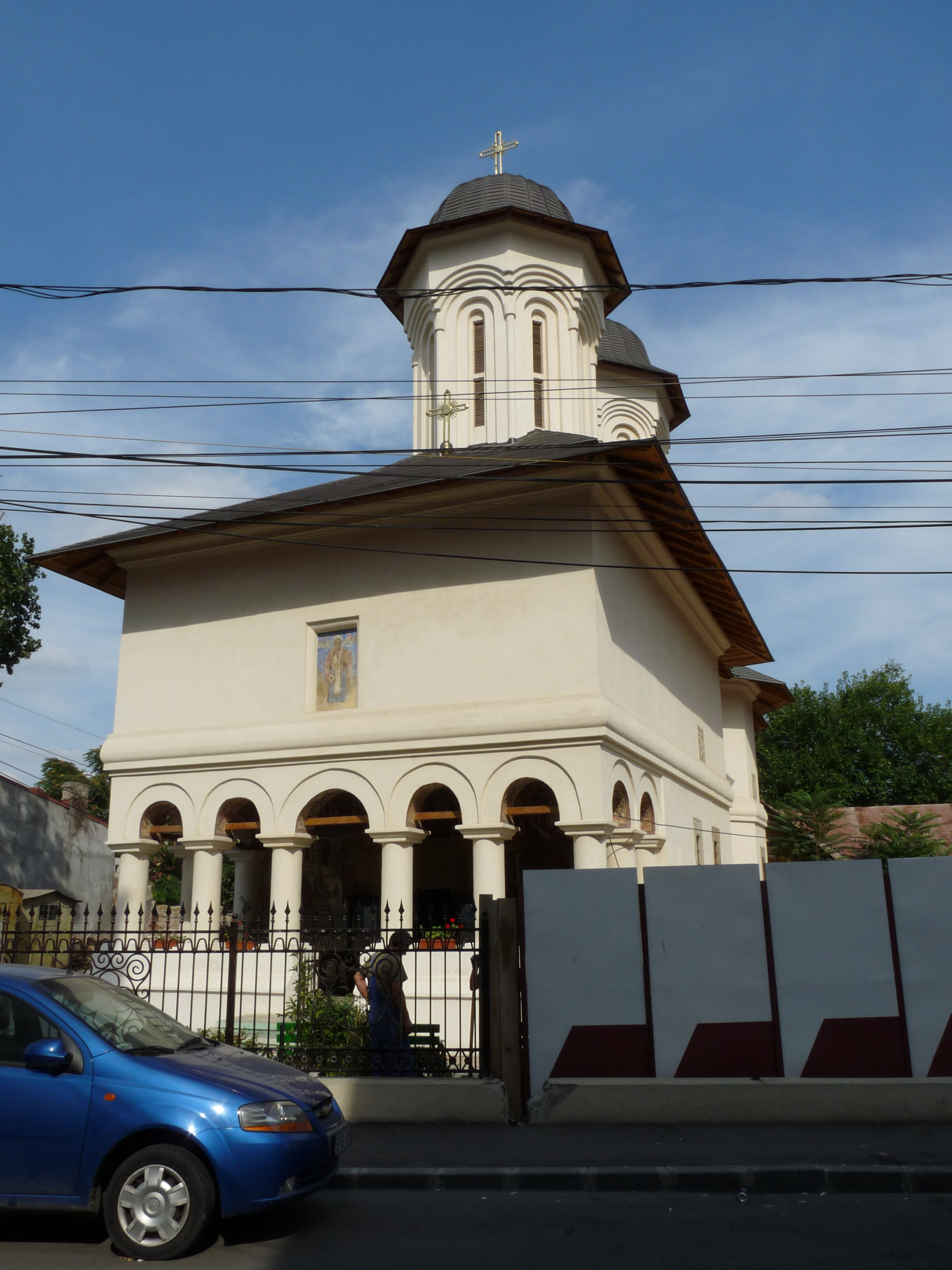 Udricani church (St. Nicholas) in Bucharest, RomaniaRomână: Biserica Udricani (Sf. Nicolae) din Bucureşti, România